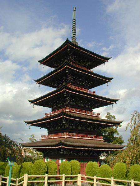 Pagoda at Saishoin, Hirosaki, Japan.